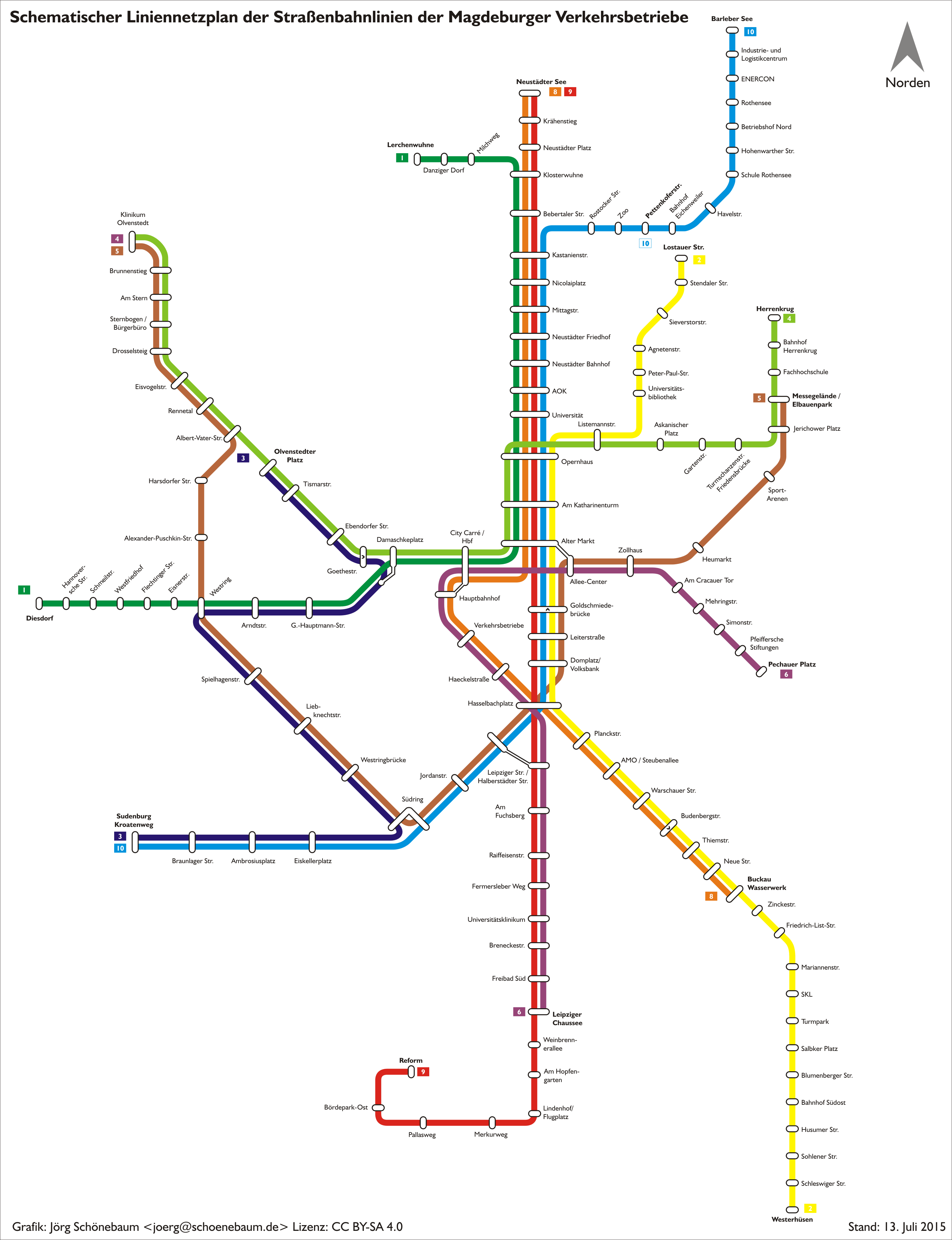 Tram route network of Magdeburg (Operator MVB / July 2015)